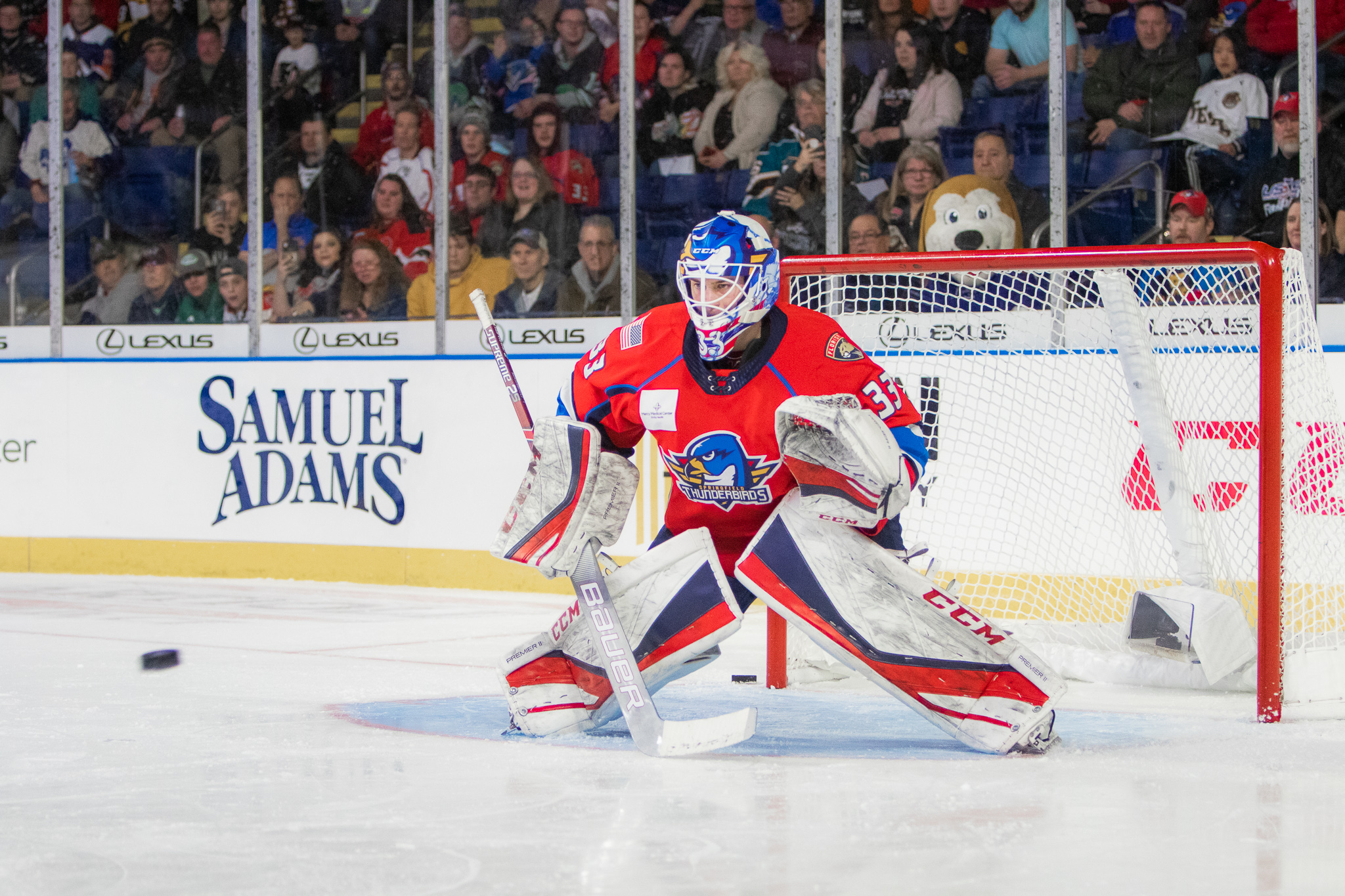 Photo By: Kelly Shea